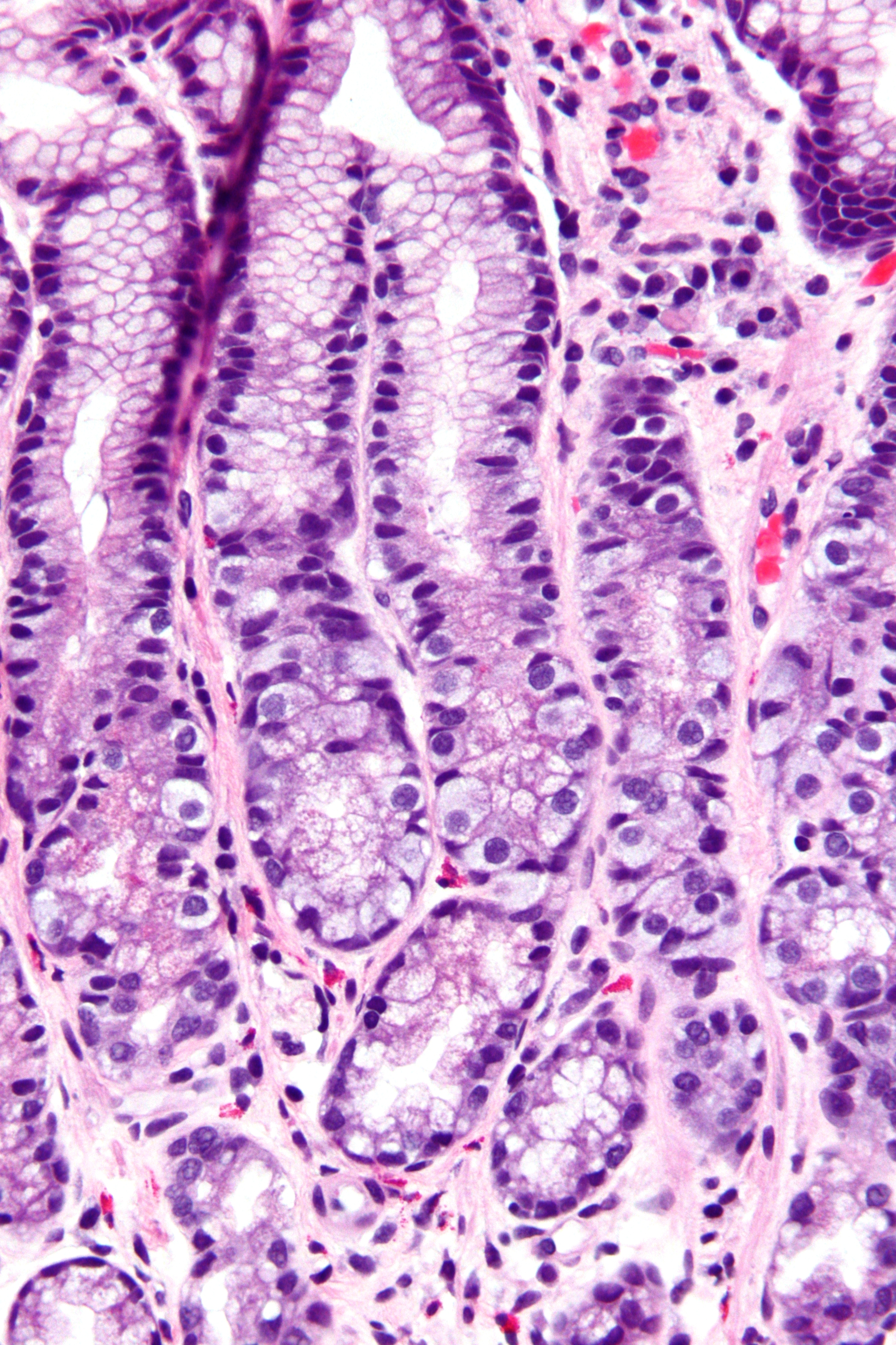 Very high magnification micrograph of gastric antrum with G cell hyperplasia. H&E stain. G cells have a fried egg-like appearance and are found in the mid portion of the gastric glands, i.e. they are neither basal or apical. G cell hyperplasia may be seen in the context of proton pump inhibitor (PPI) use, e.g. omeprazole, lansoprazole or pantoprazole. Related images Intermed. mag. High mag. Very high mag. Other images Gastric body: Low mag. Intermed. mag.